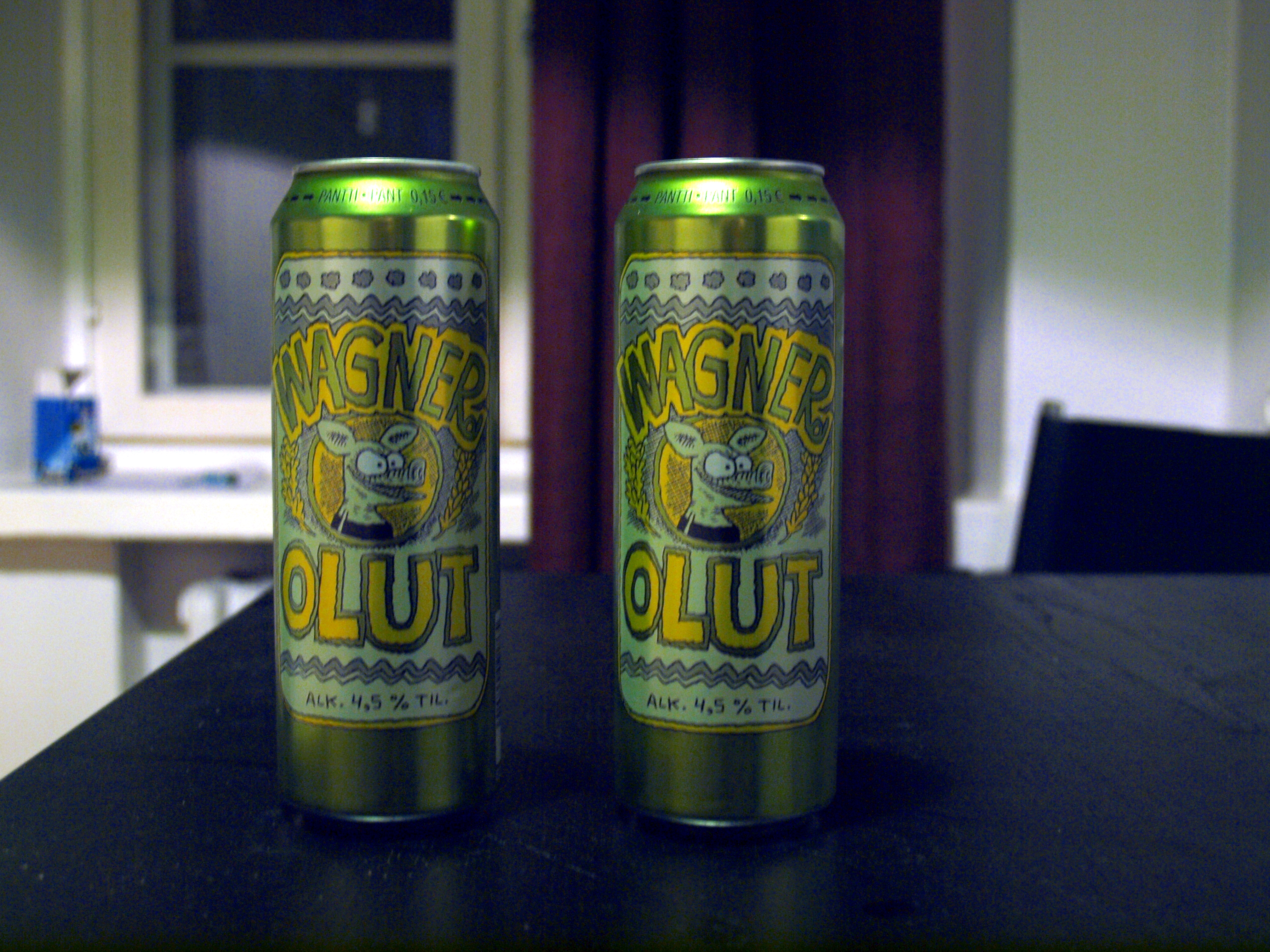 Two cans of Wagner olut ("Wagner beer"), a brand of beer by the Finnish Olvi brewery, named after the Finnish Viivi & Wagner comics by Jussi Tuomola ("Juba").